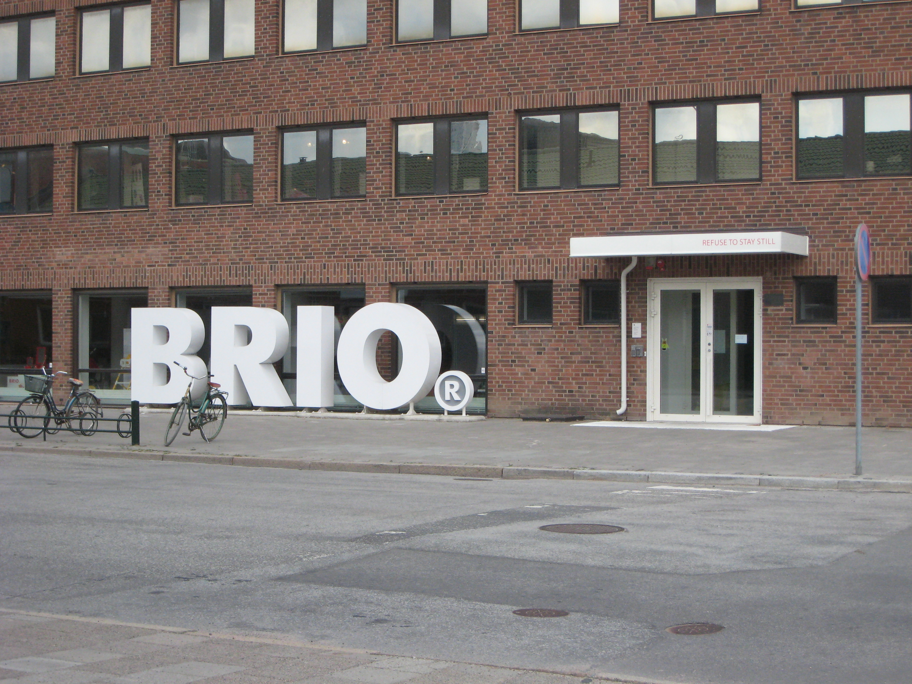 The new HQ of BRIO in Malmö